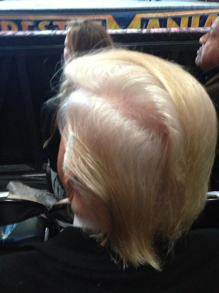 I sat behind Trump at a sporting event and got this shot of his famous triple comb-over. You don't usually see it from this angle, so that's why I'm uploading it to Wikimedia Commons.